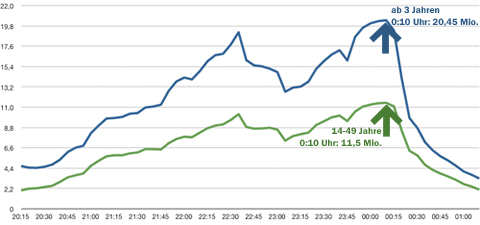 5 minutes timeband TV ratings report Eurovision Song Contest 2010, Germany won with Lena.